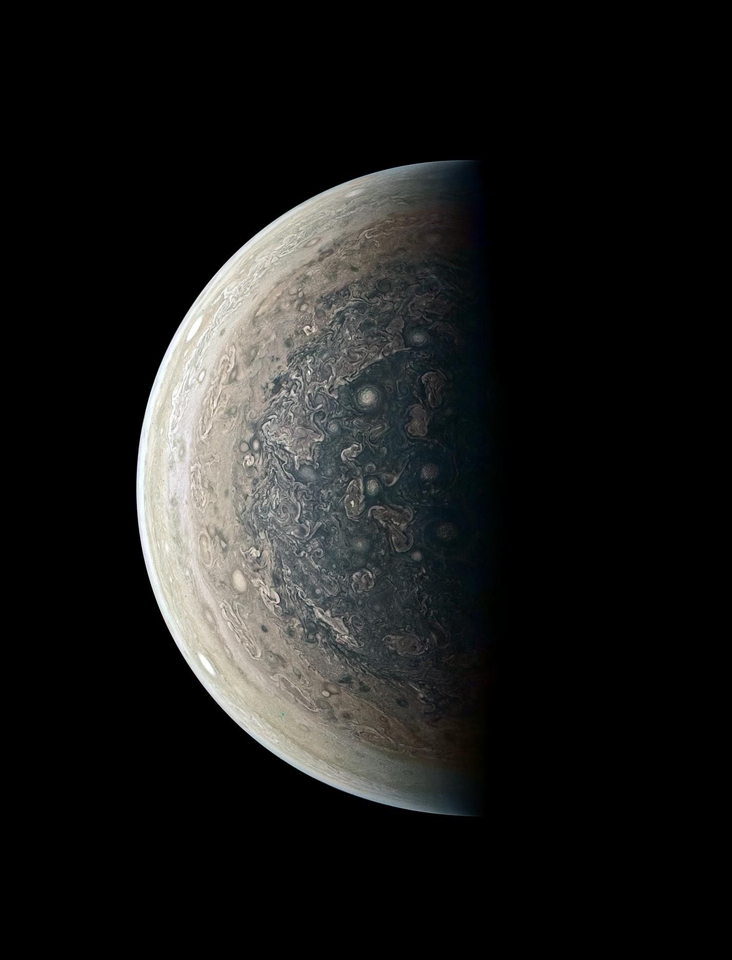 This enhanced-color image of Jupiter's south pole and its swirling atmosphere was created by citizen scientist Roman Tkachenko using data from the JunoCam imager on NASA's Juno spacecraft. Juno acquired the image, looking directly at the Jovian south pole, on February 2, 2017, at 6:06 a.m. PST (9:06 a.m. EST) from an altitude of about 63,400 miles (102,100 kilometers) above Jupiter's cloud tops. Cyclones swirl around the south pole, and white oval storms can be seen near the limb -- the apparent edge of the planet. NASA's Jet Propulsion Laboratory manages the Juno mission for the principal investigator, Scott Bolton, of Southwest Research Institute in San Antonio. Juno is part of NASA's New Frontiers Program, which is managed at NASA's Marshall Space Flight Center in Huntsville, Alabama, for NASA's Science Mission Directorate. Lockheed Martin Space Systems, Denver, built the spacecraft. Caltech in Pasadena, California, manages JPL for NASA. More information about Juno is online at and